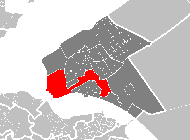 Districts in Almere